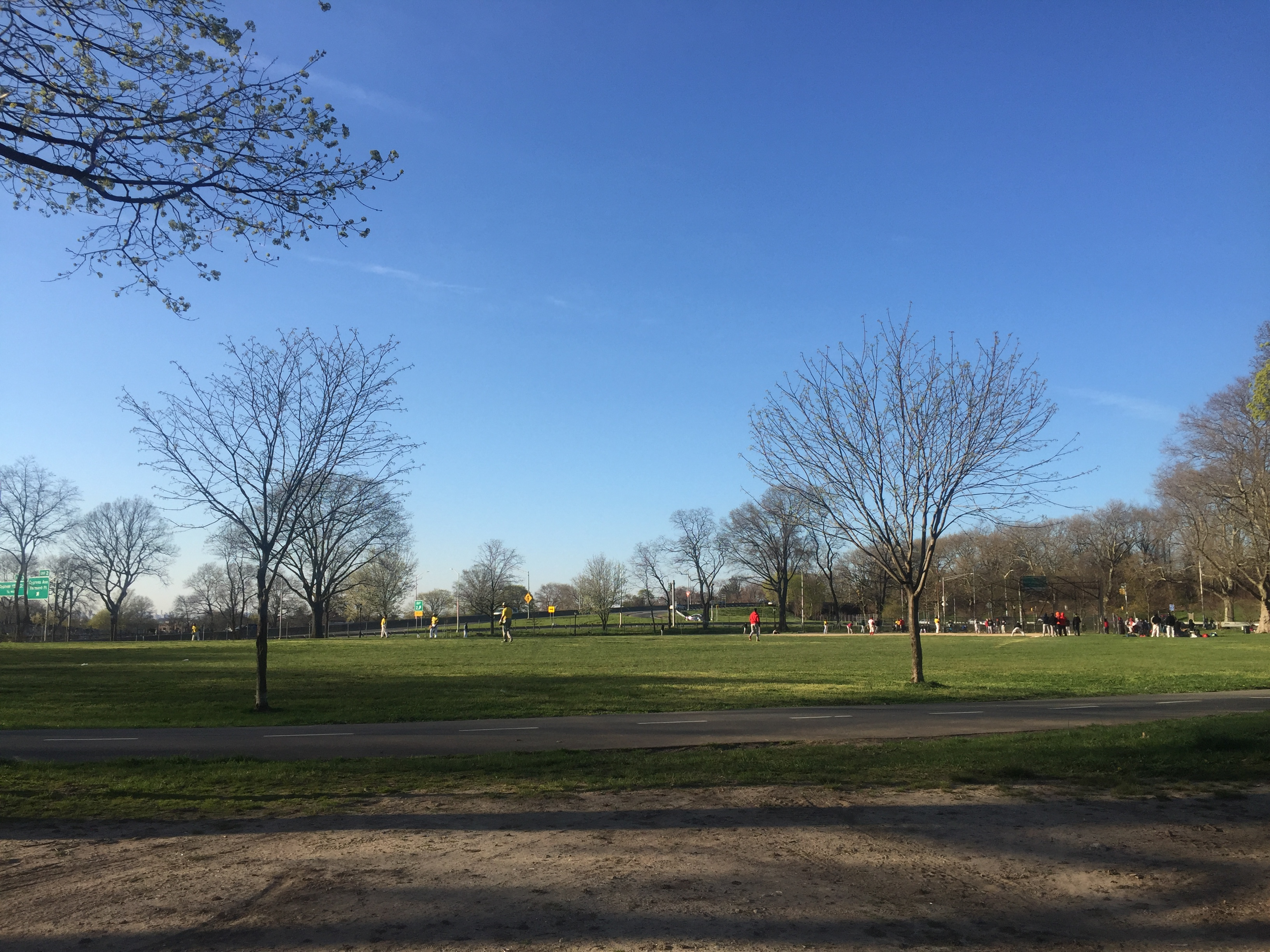 A view to the baseball field of Highland Park